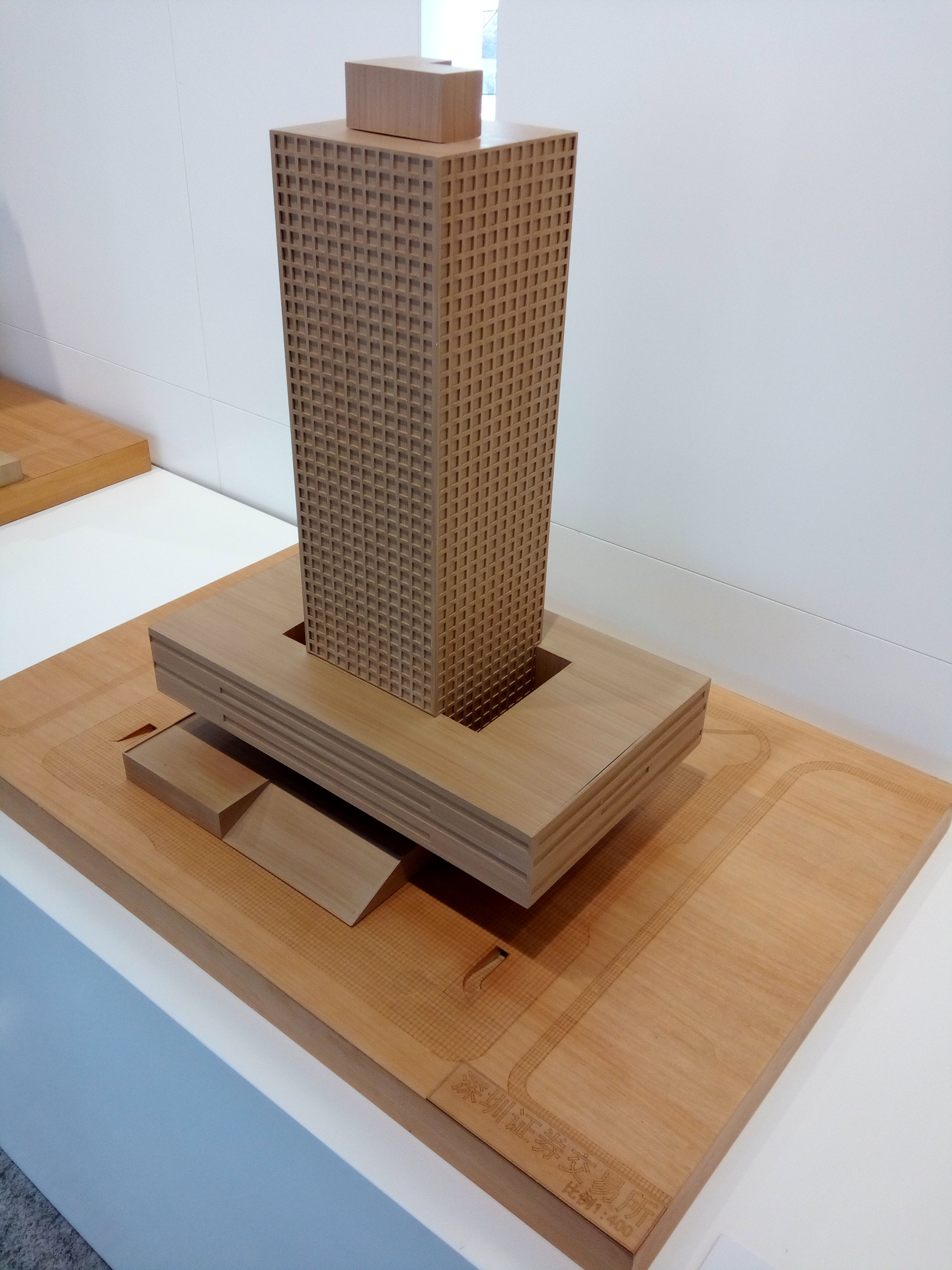 Scale models of Shenzhen, 深圳城市規劃展覽館 Shenzhen City Planning Exhibition Hall, Shenzhen